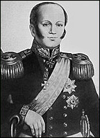 Admiral Dmitry Senyavin (1769-1831).